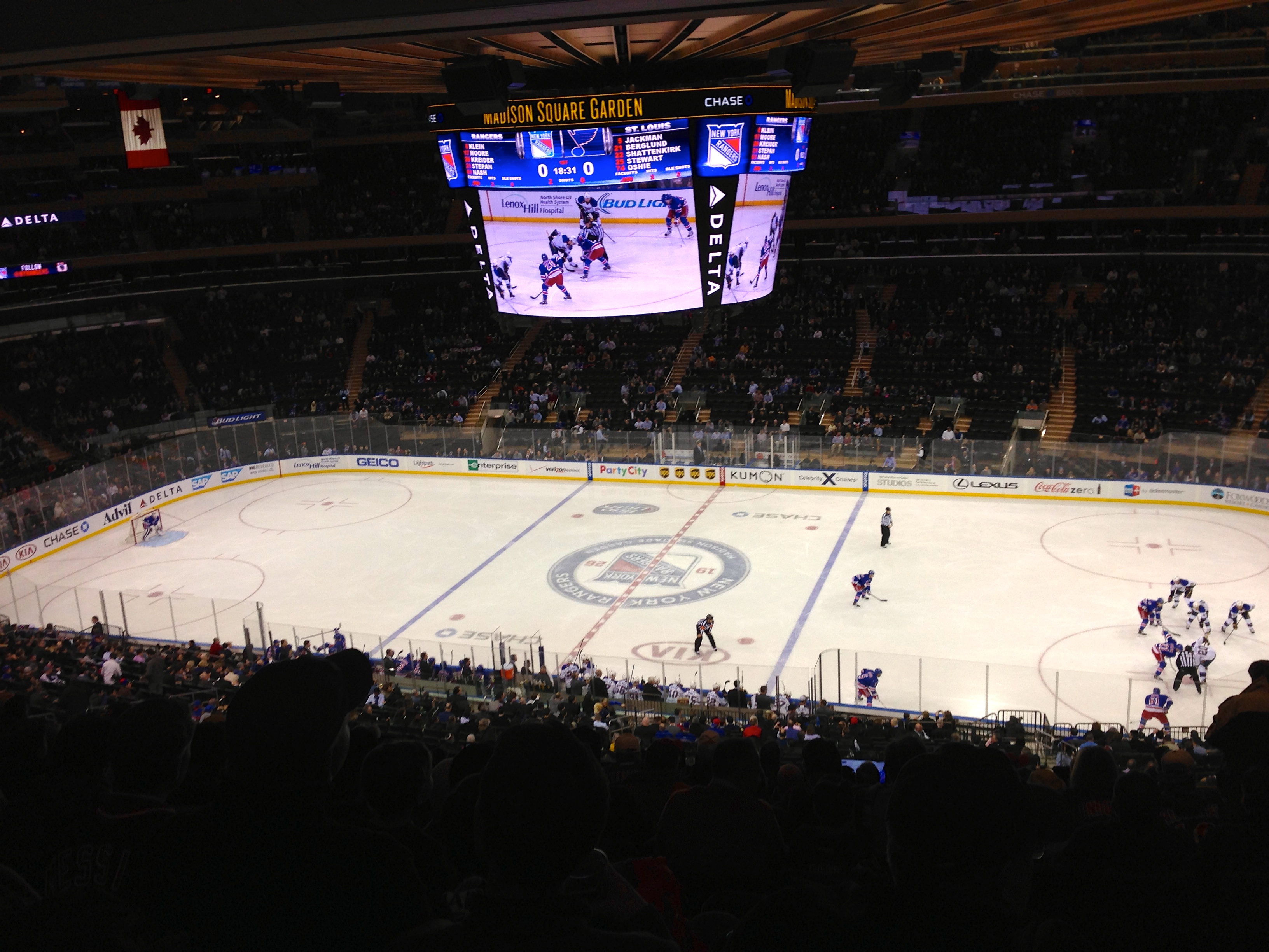 The completely transformed Madison Square Garden during a New York Rangers hockey game on January 23, 2014 against the St. Louis Blues.